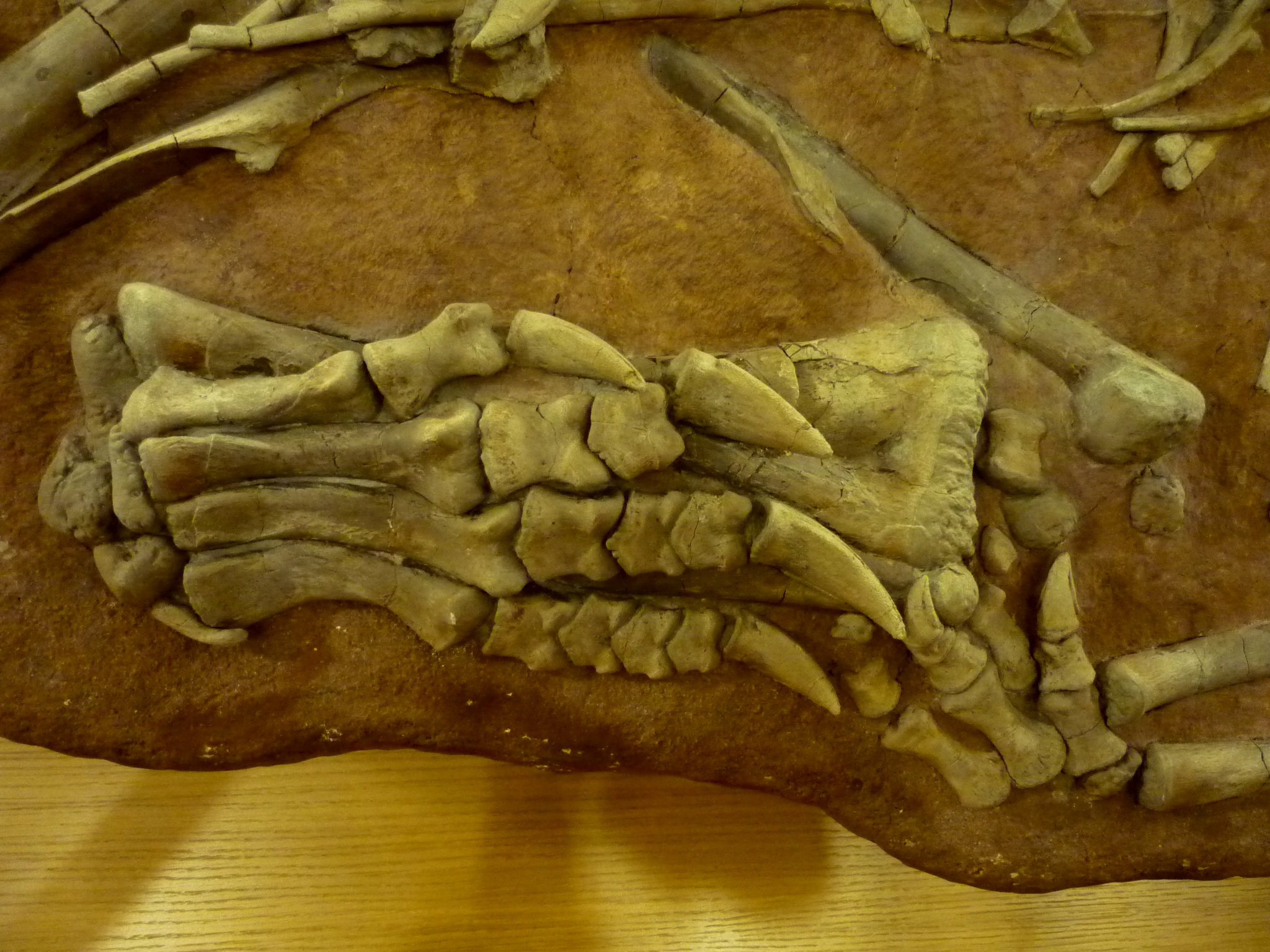 Hindlimb of Tenontosaurus, Institut de paléontologie humaine, Paris, France